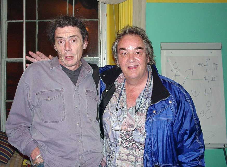 Barry Mason & Jonathan Ott October 2002. Glastonbury UK, original photo by DreaMaTrix Barry Mason & Jonathan Ott October 2002. Glastonbury UK, original photo by DreaMaTrix